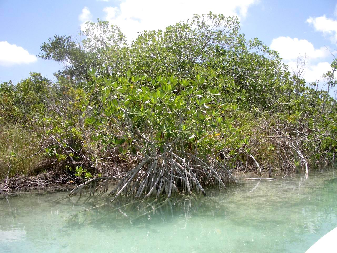 Sian Ka'an, doing a boat trip in the nature reserve